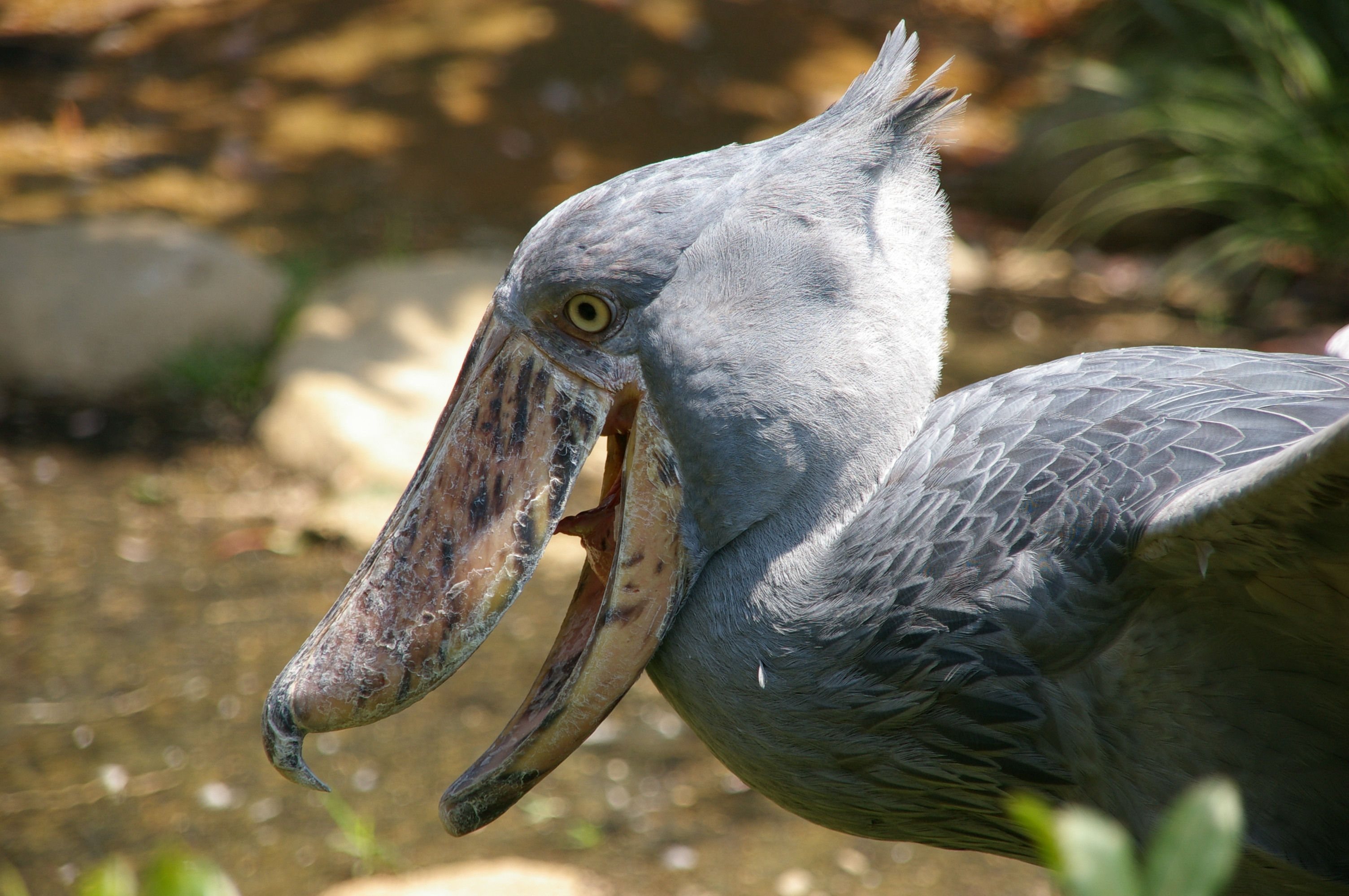 Shoebill at Ueno Zoo, Tokyo, Japan.